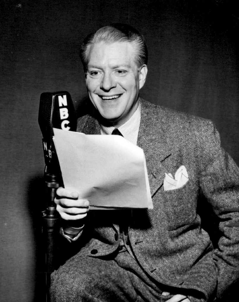 Photo of Nelson Eddy from the radio version of Kraft Music Hall. Eddy was hosting the program while its regular host, Al Jolson, was on vacation. People in the radio industry had the summer off, just as television programs do now. Instead of reruns prominent in the television industry, radio shows either went on summer vacation with summer replacement shows or had replacement hosts during this time period.